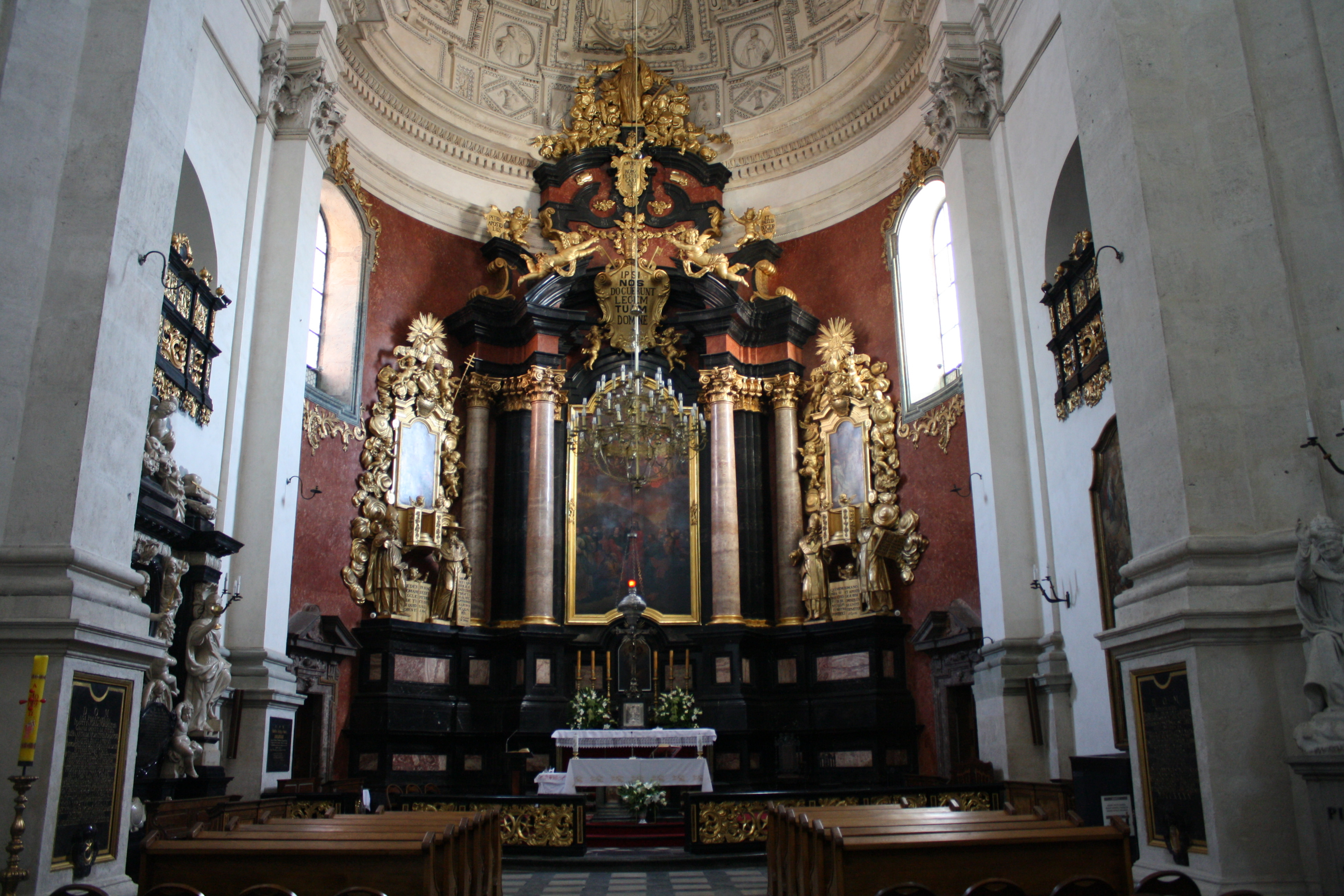 Cracow, Church of SS. Peter and Paul, main altar